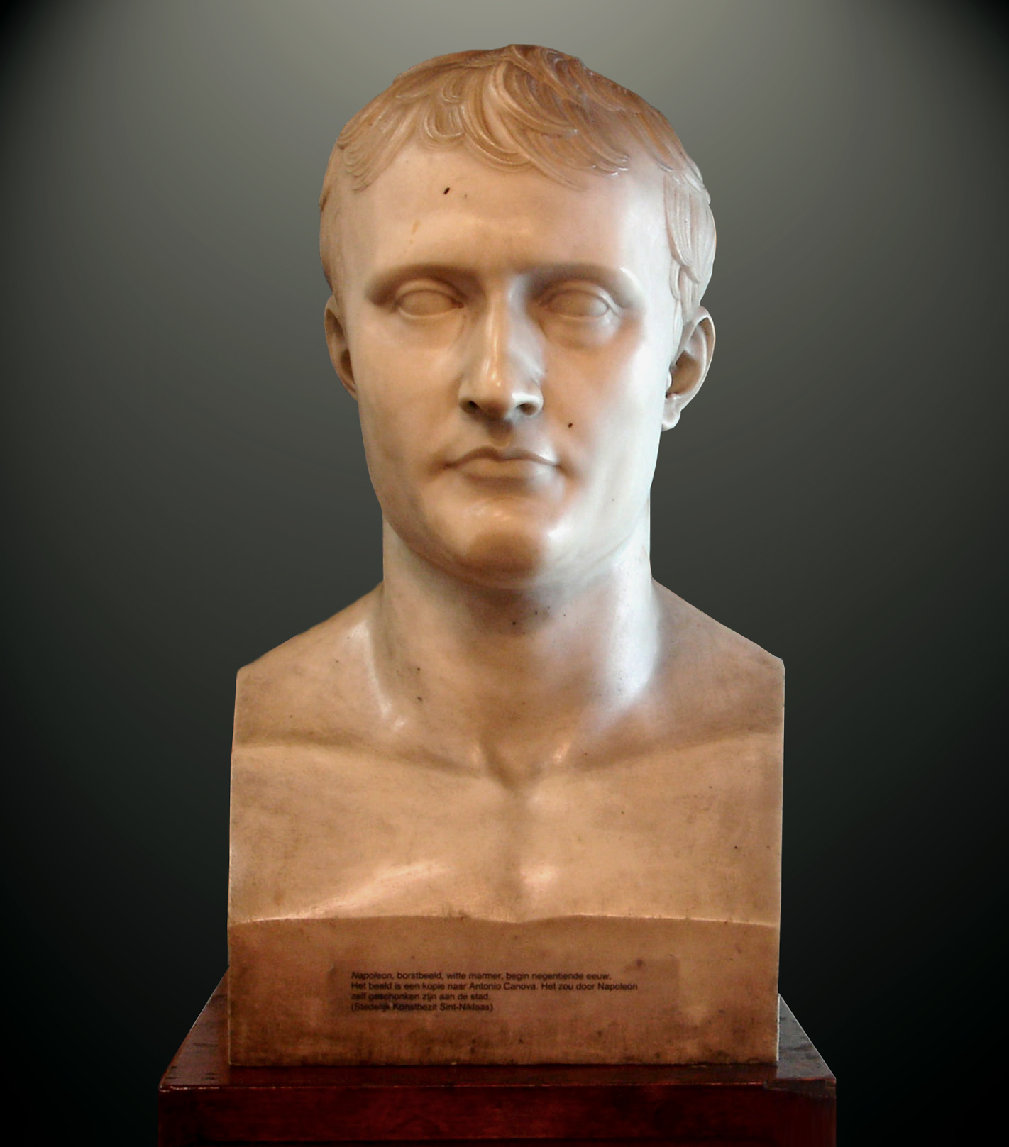 Bust of Napoleon